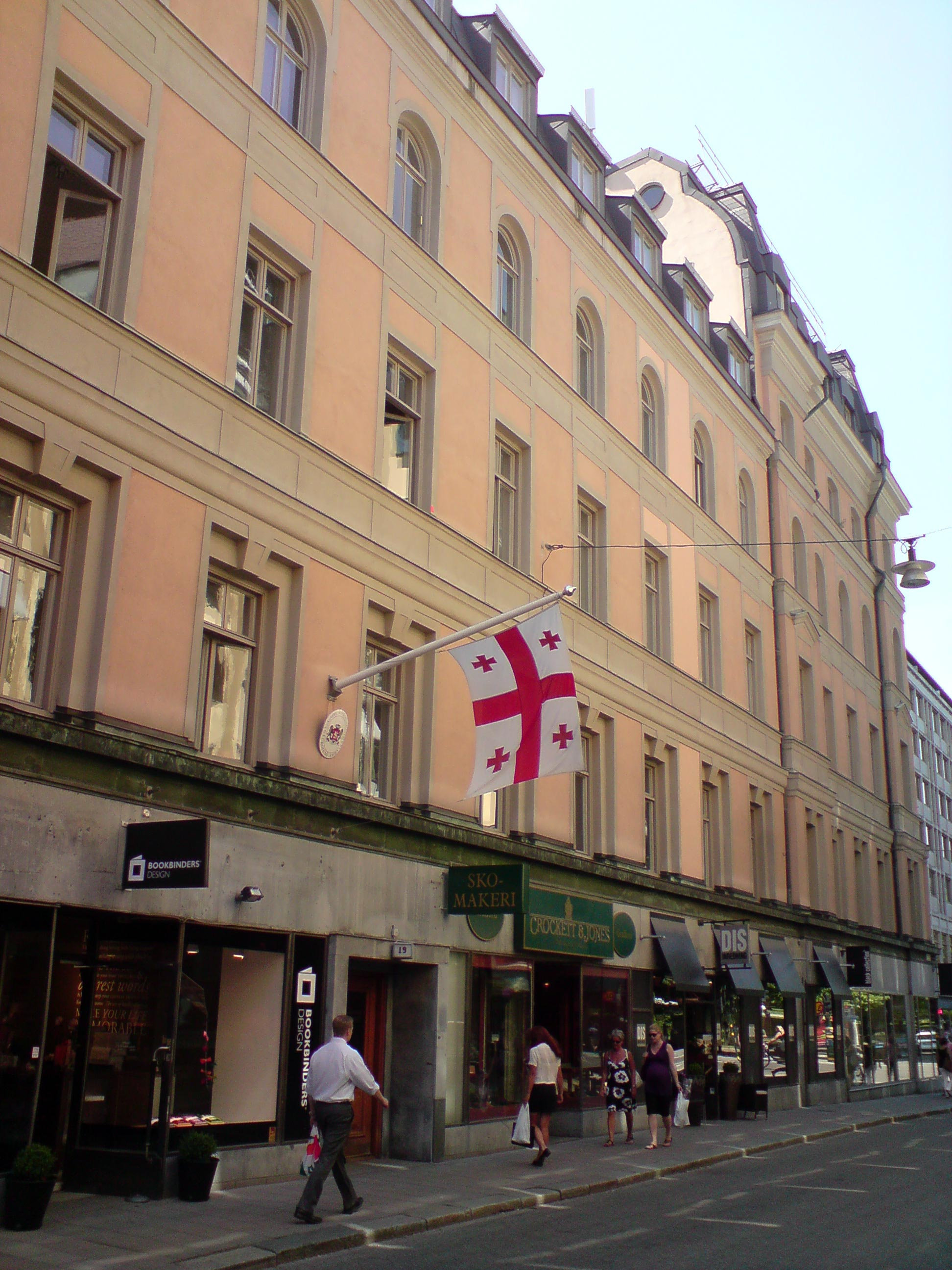 The Georgian embassy in Stockholm, Sweden.